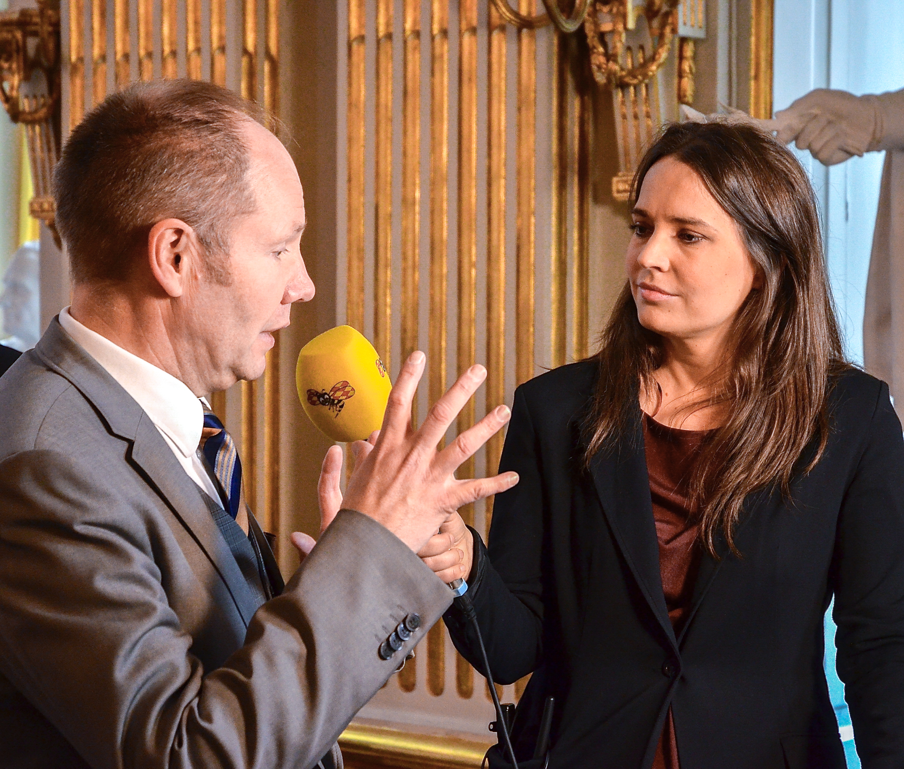 Peter Englund, permanent secretary of the Swedish Academy, announces the Nobel Prize for Literature in 2012, Mo Yan.